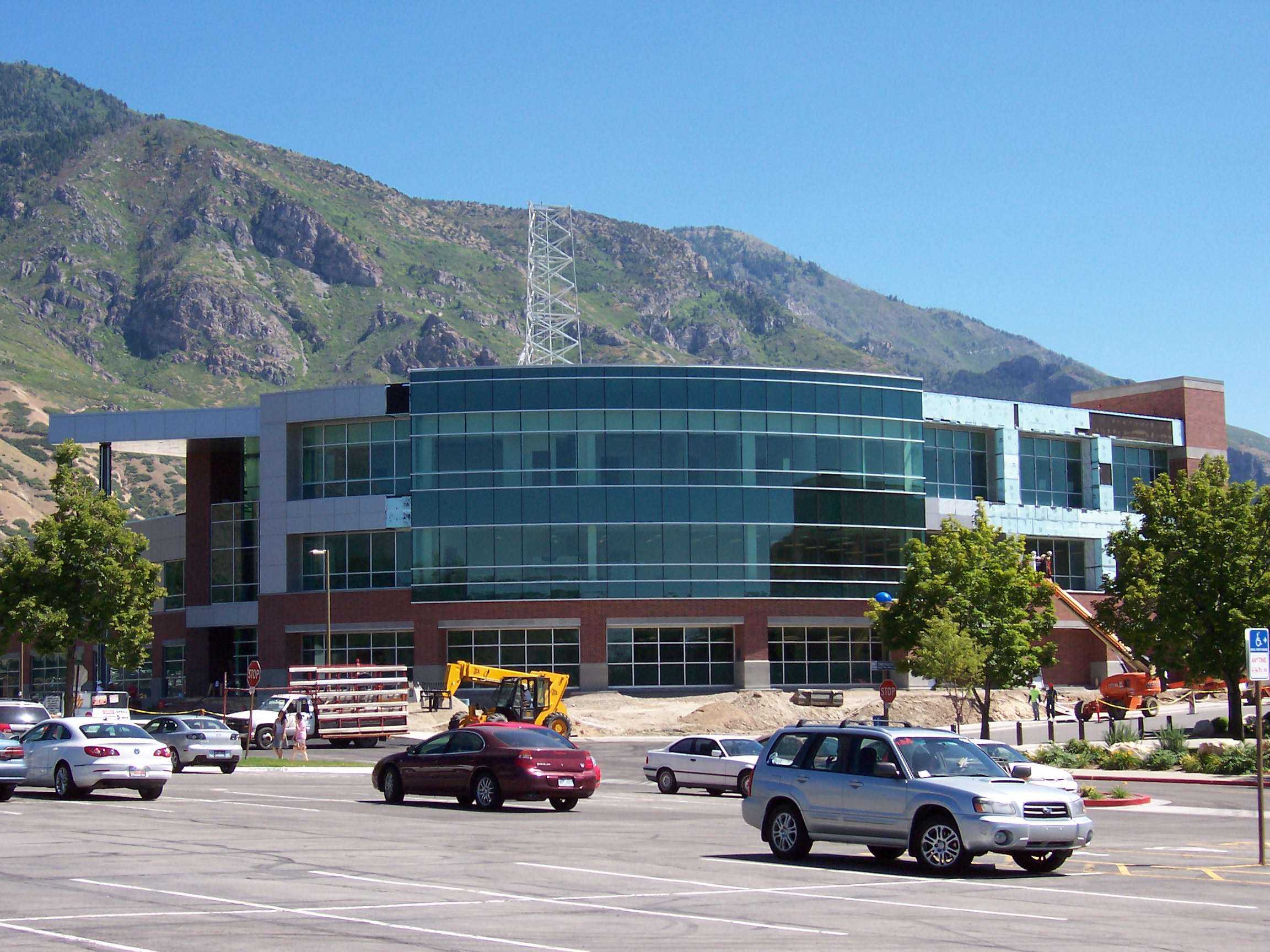 Photograph of the BYU Broadcasting Building at Brigham Young University.